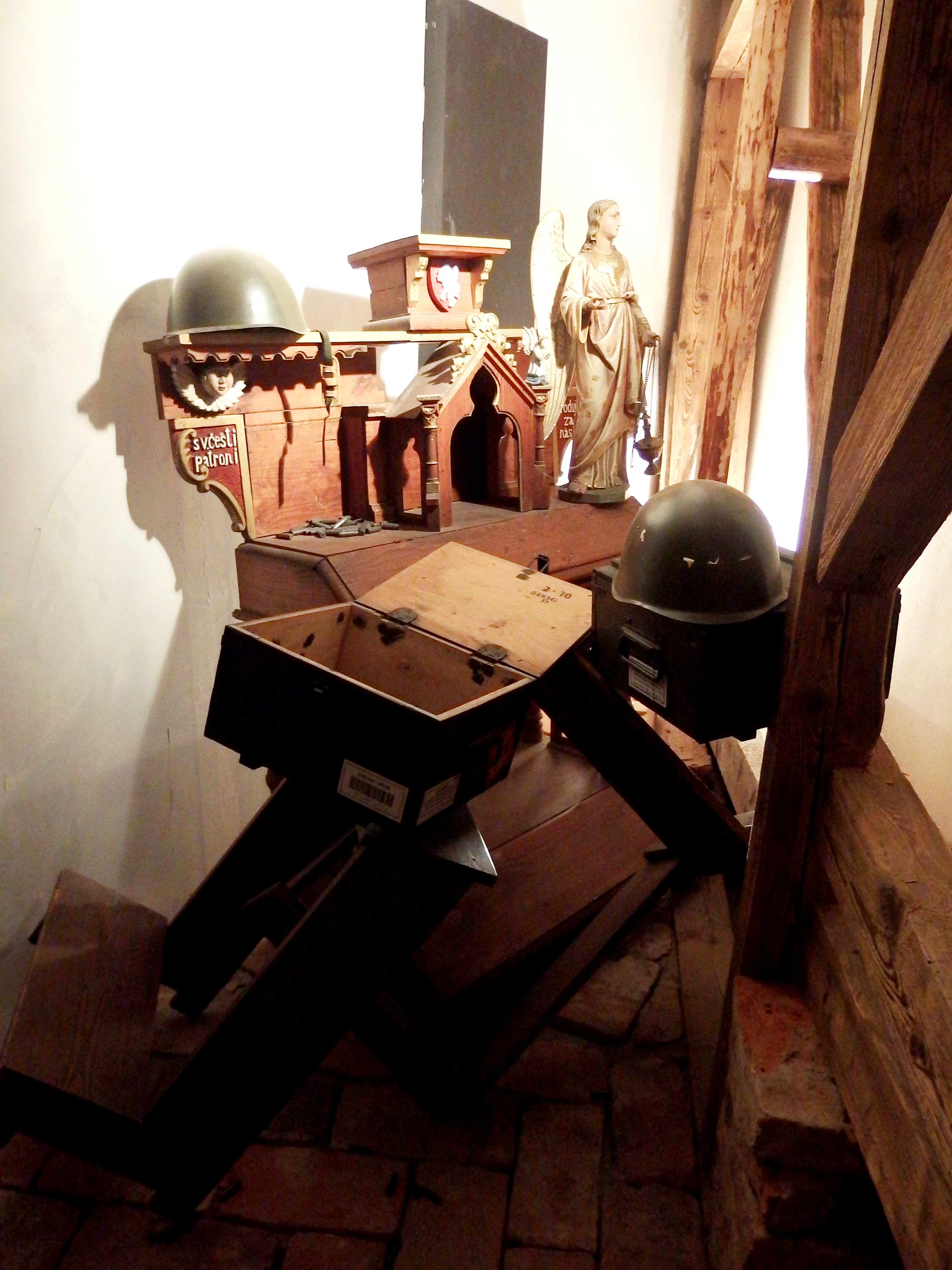 Kroměříž, Czech Republic. Exposition of Karel Kryl.